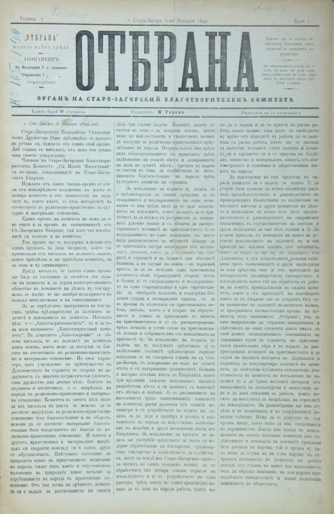 Newspaper Otbrana